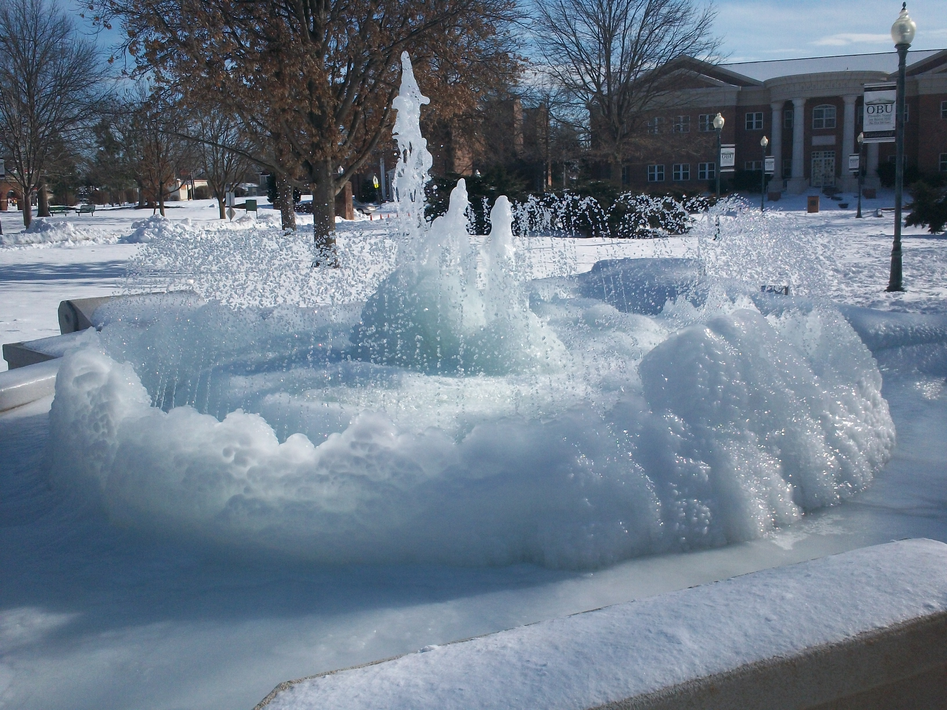 Oklahoma Baptist University (OBU) Campus oval fountain in 2011 snowstorm